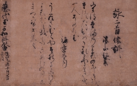 Kumano poems (熊野懐紙, Kumano kaishi). One of three hanging scrolls written on a pilgrimage to Kumano. Located at Yōmei Bunko, Kyoto, Japan